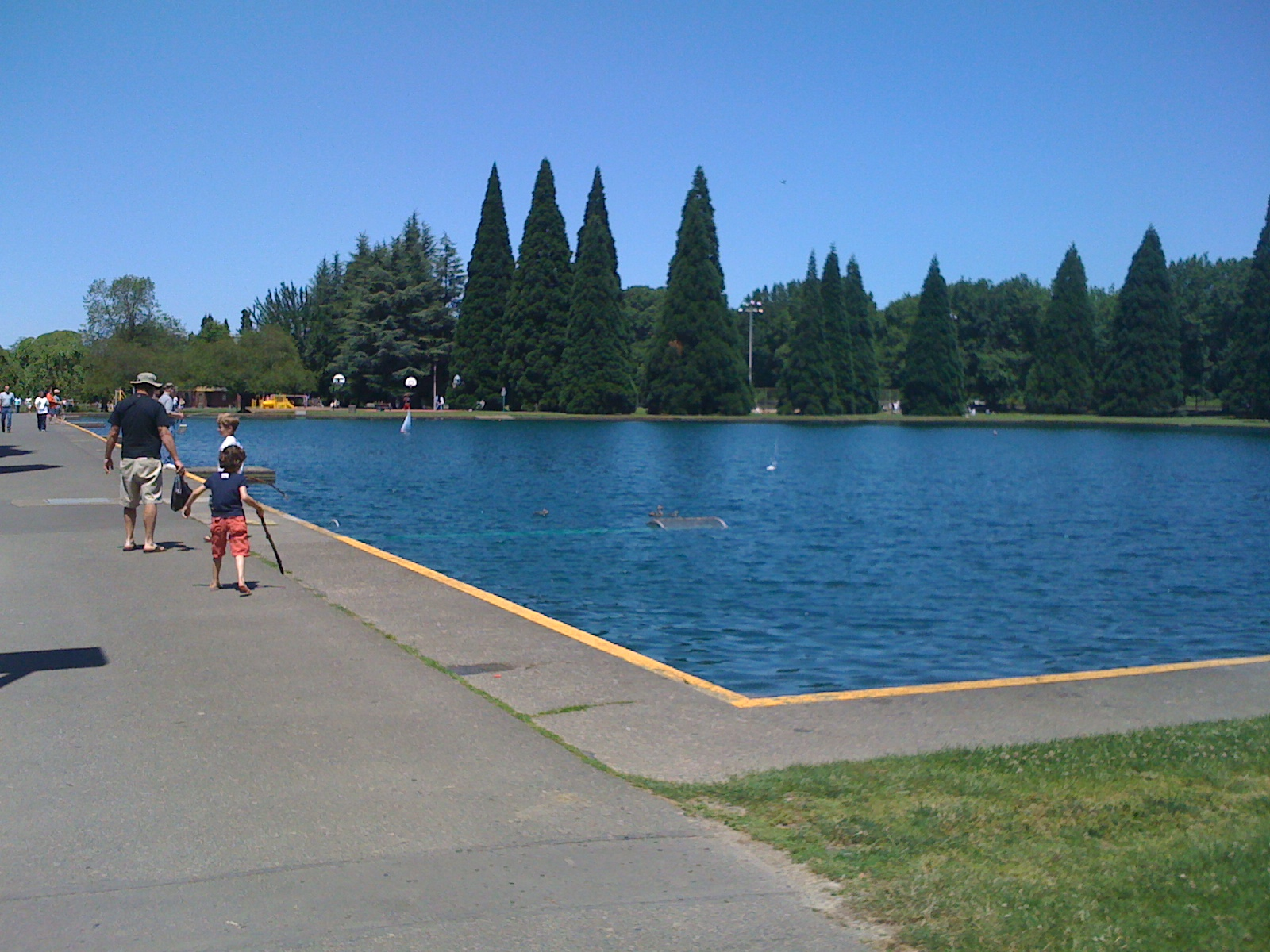 A perfect day at Westmoreland Park in Portland, Oregon